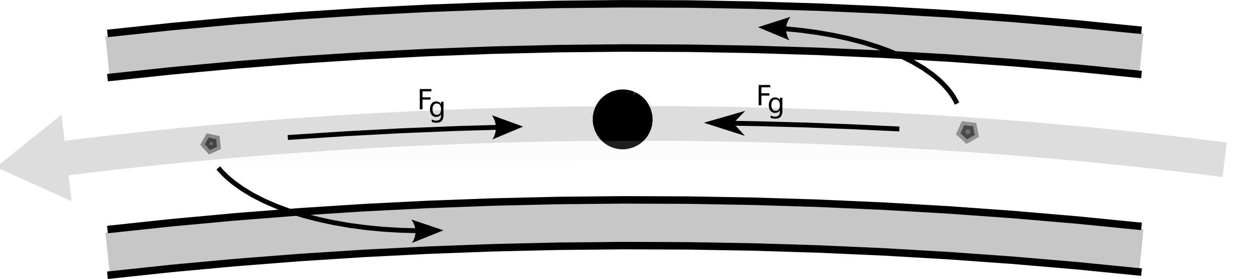 This images shows, how a shepherd moon clears his orbit of material and rearranges them in two planetary rings. If material is before or behind the shepherd moon, these particles get accelerated by the gravity of the shepherd moon. In case, the particle gets accelerated on it's movement around the planet, the particle reaches a higher orbit around the planet, because it has gained energy. In case, it is decelerated, the particle loses energy and falls to a lower orbit around the planet.